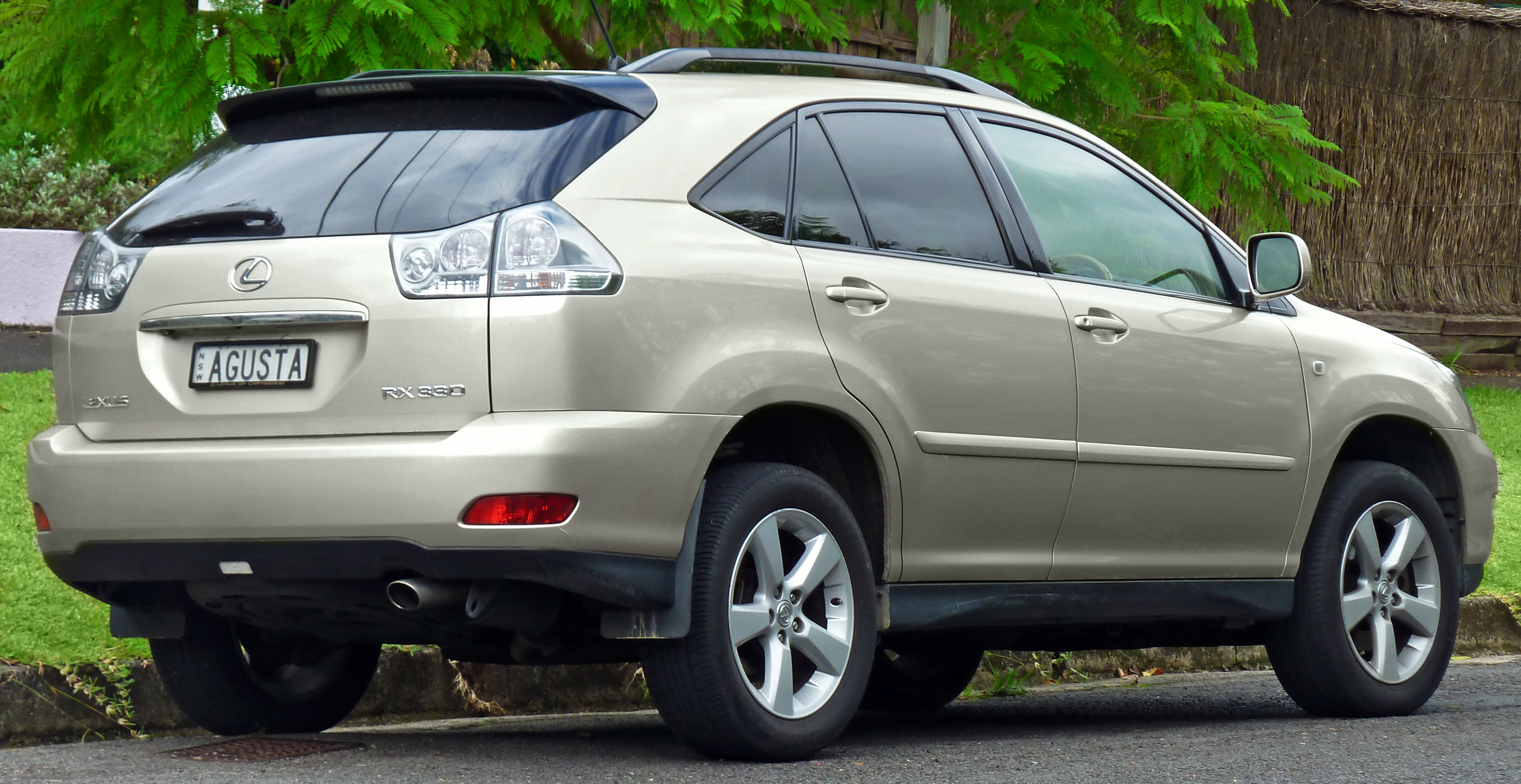 2004–2005 Lexus RX 330 (MCU38R) Sports Luxury wagon. Photographed in Lindfield, New South Wales, Australia.